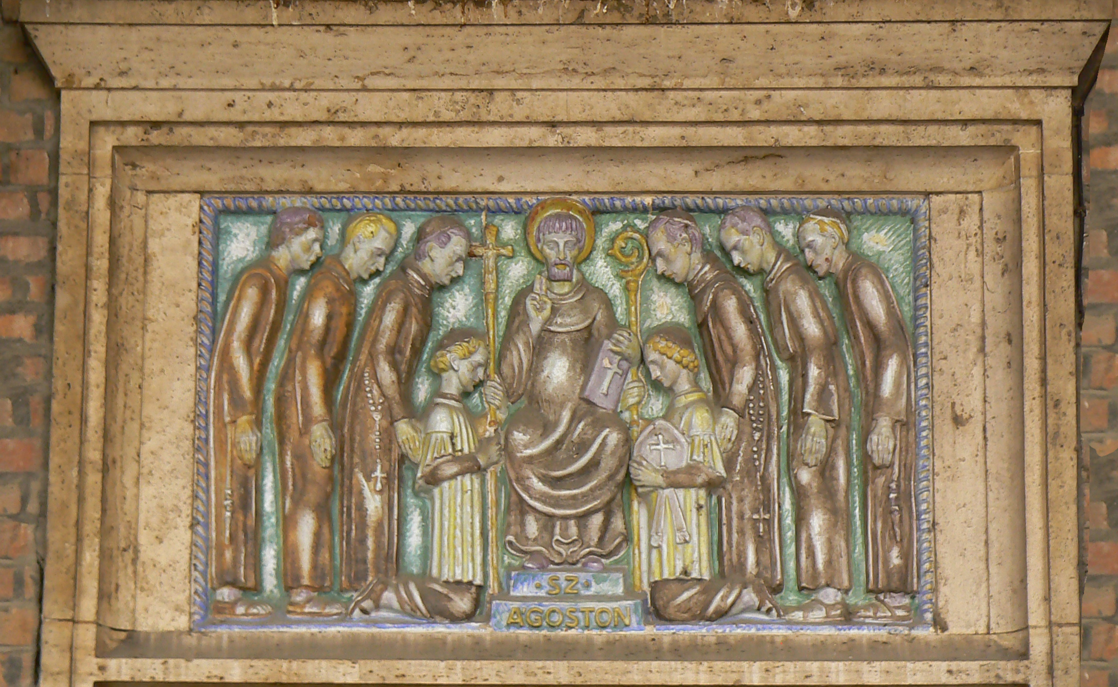 Béla Ohmann statues 1930